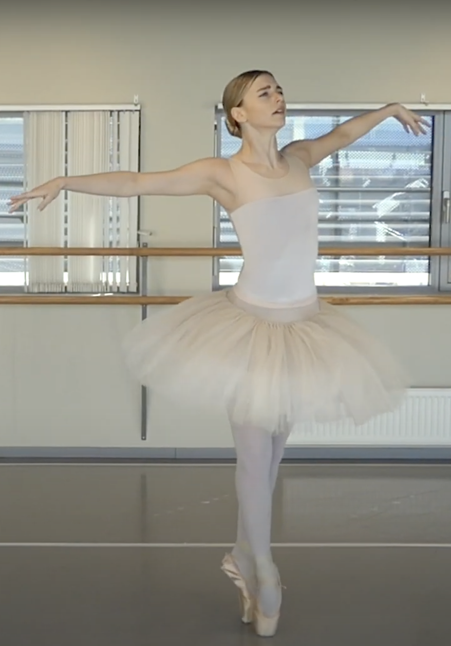 Swans For Relief - Whitney Jensen - The Norwegian National Ballet, Norway 32 premier ballerinas from 22 dance companies in 14 countries perform Le Cygne (The Swan) variation sequentially in support of Swans for Relief. Organized by Misty Copeland and Joseph Phillips, 100% of the funds raised will be distributed to each dancer’s company’s COVID-19 relief fund, or other arts/dance-based relief fund in the event that a company is not set up to receive donations. To donate please visit, Ballet companies are largely dependent on revenue from performances to pay their dancers and fund their operations, but due to the coronavirus pandemic, all performances have been halted. Consequently, many dancers are unable to depend on paychecks and are facing the hardship of paying rent and/or buying food and other necessities. Le Cygne (The Swan) with music by Camille Saint-Saëns, performed by cellist Wade Davis (USA), with choreography by Michel Fokine by kind permission of the Fokine Estate-Archive.